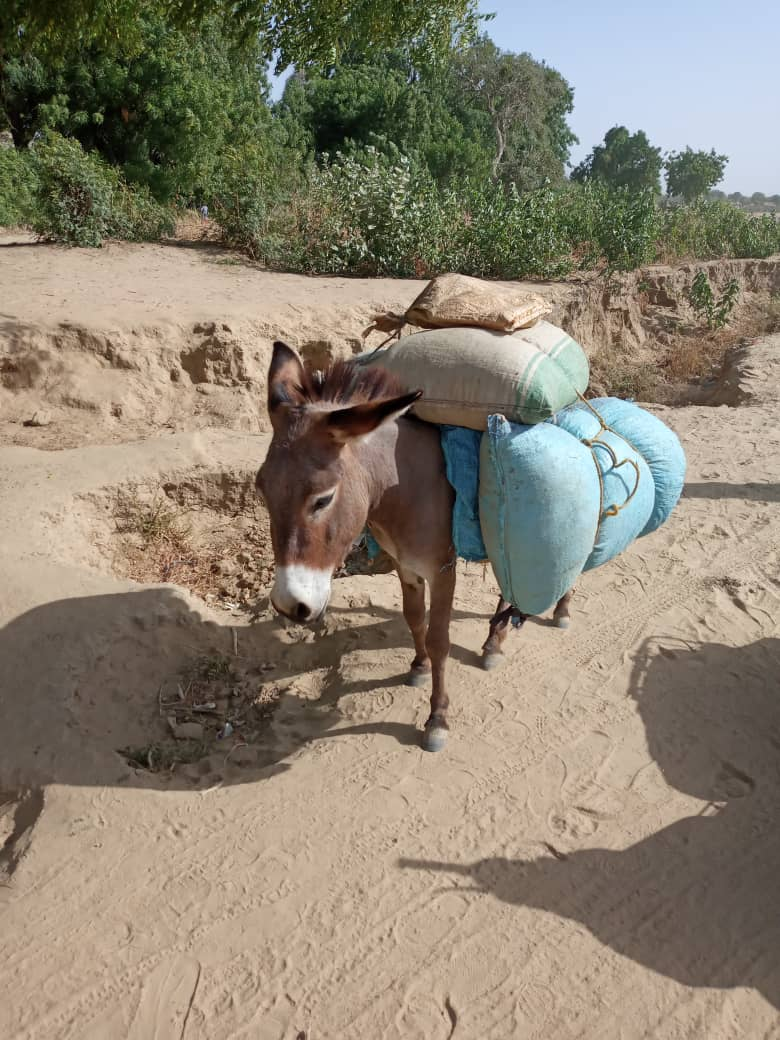 Transport animal This is an image with the theme "Africa on the Move or Transport" from: Cameroon